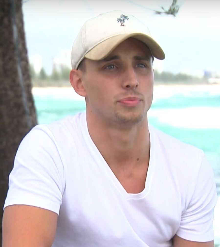 Cropped video still of Dom Bedggood speaking on the Gold Coast about the 2018 Commonwealth Games